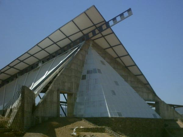 Sanctuary of Our Lady of Mount Caramel